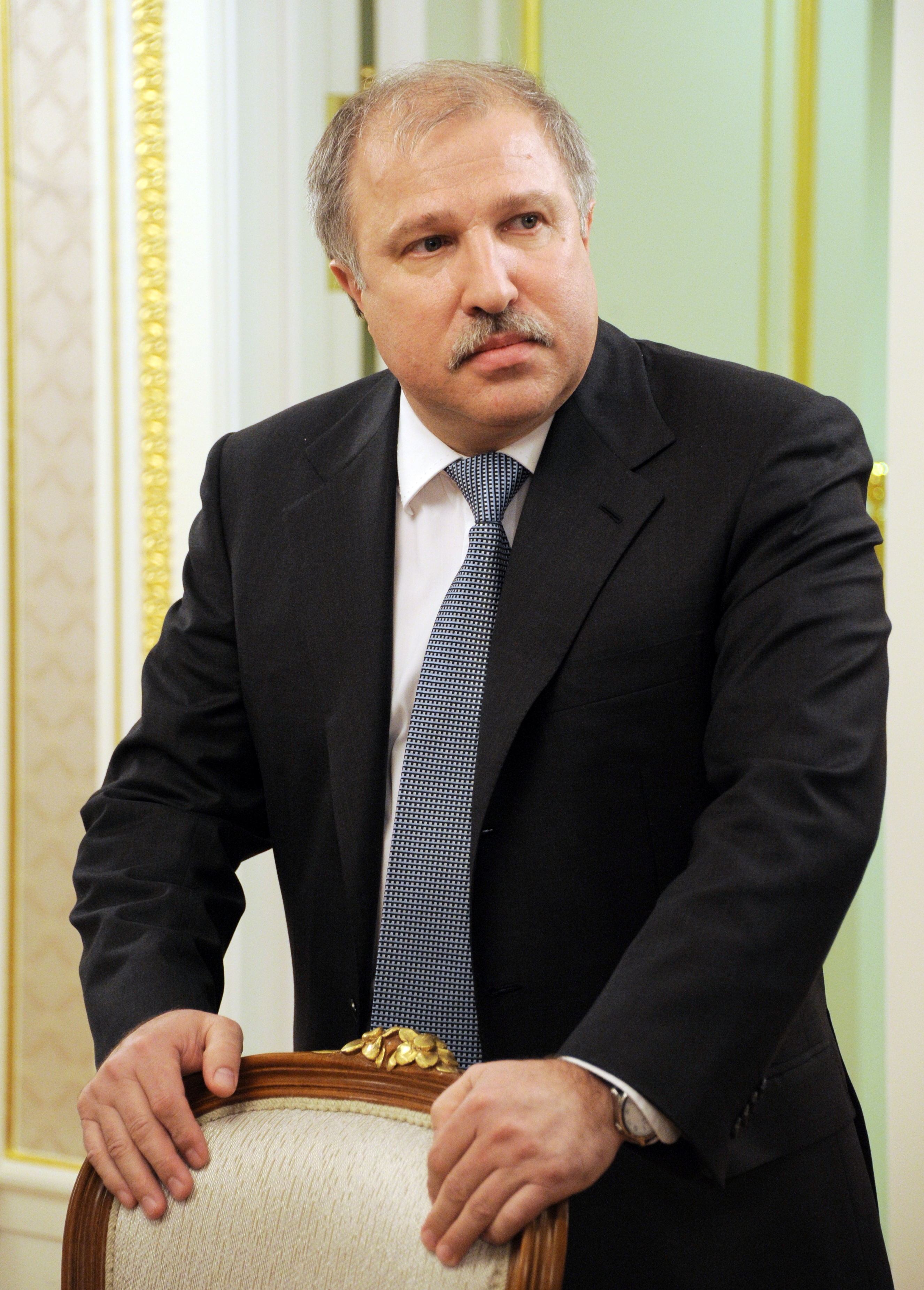 President of the oil company Rosneft Eduard Khudainatov.